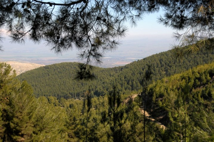 Birya Forest, Geography of Israel